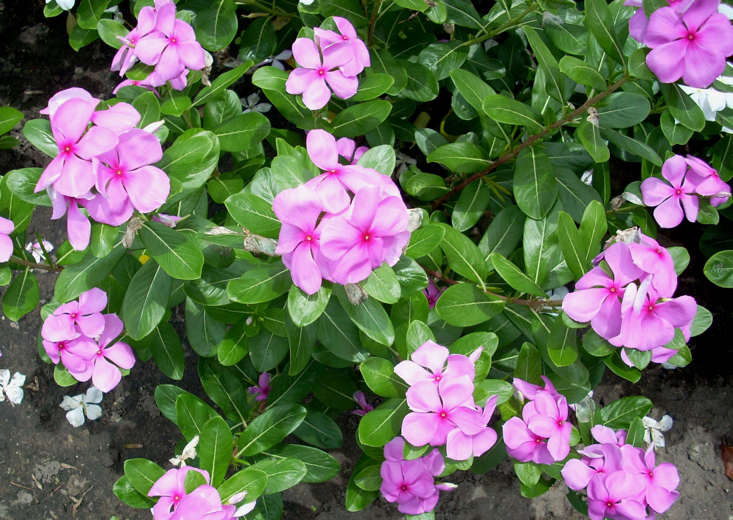 Leaves are obovate with rounded apex. The fragrant and trumpet-shaped flowers are purple, red, pink or white with a prominent eye.